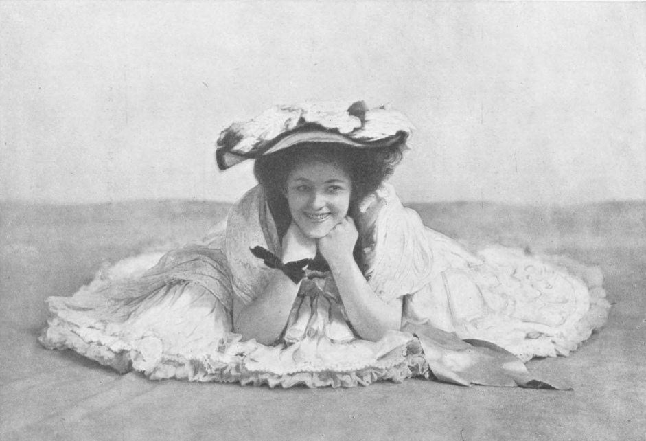 Diamond Donner in The Prince of Pilsen